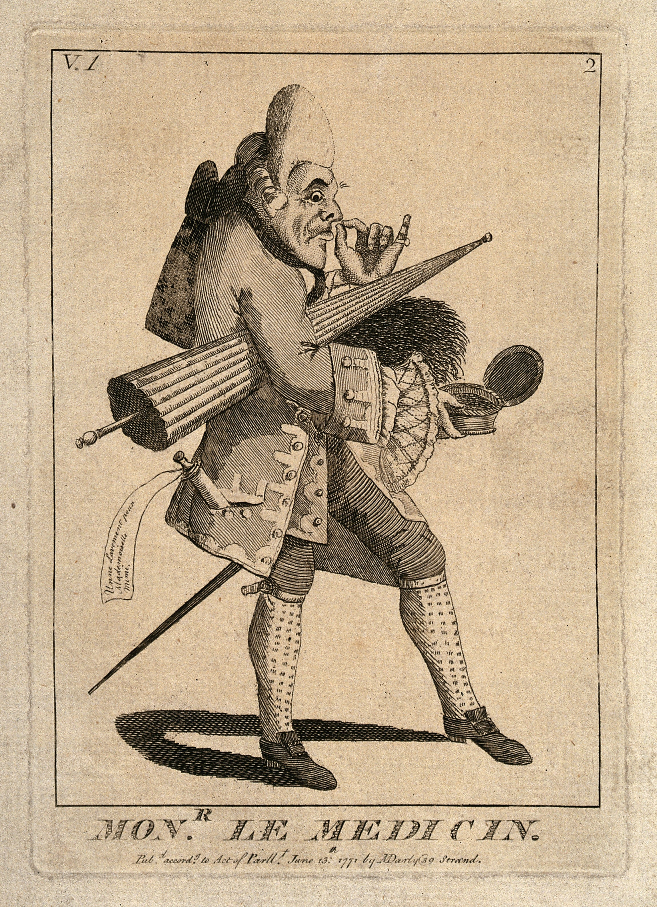 A French physician. Engraving by M. Darly, 1771. Iconographic Collections Keywords: intaglio prints; snuff; Caricatures; Physicians; medical instruments and appara; Matthew Darly